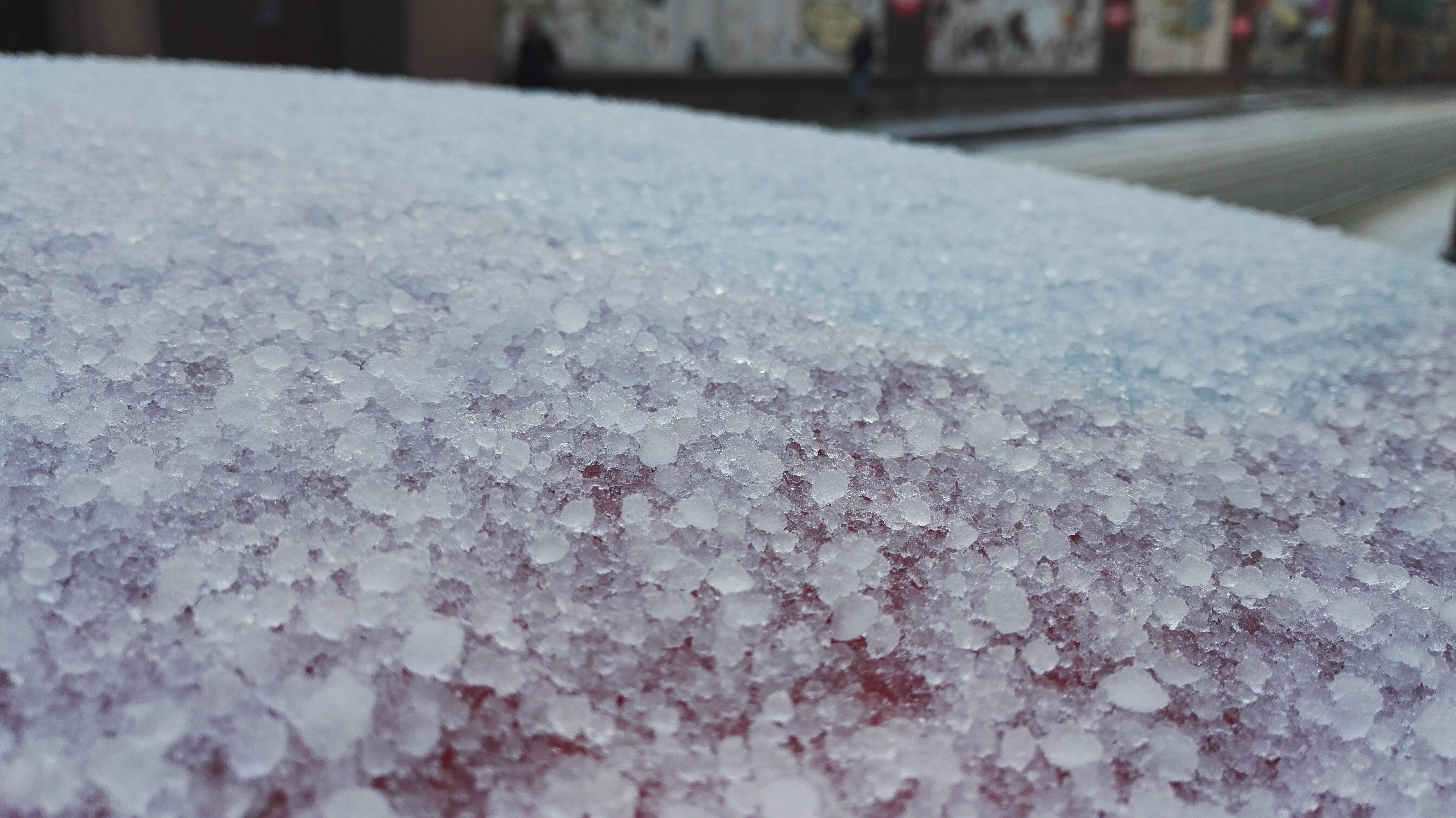 Graupel from yesterday on the next day morning